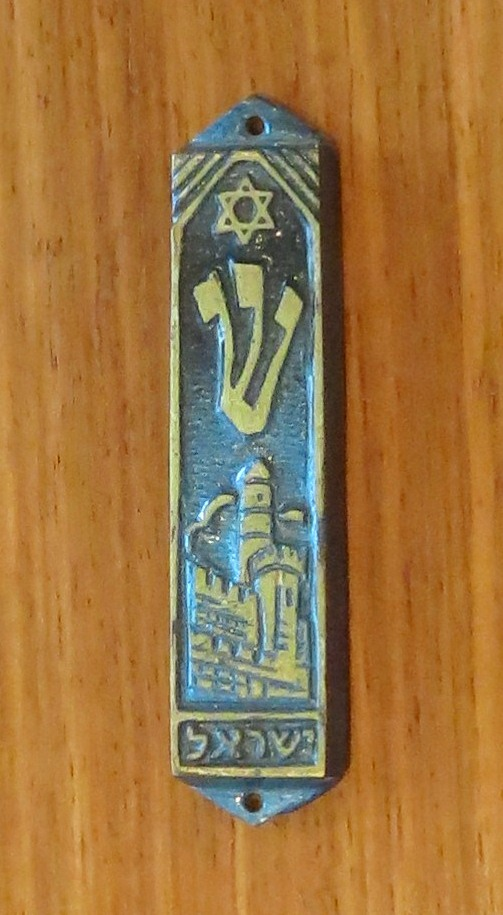 A mezuzah from Macedonia